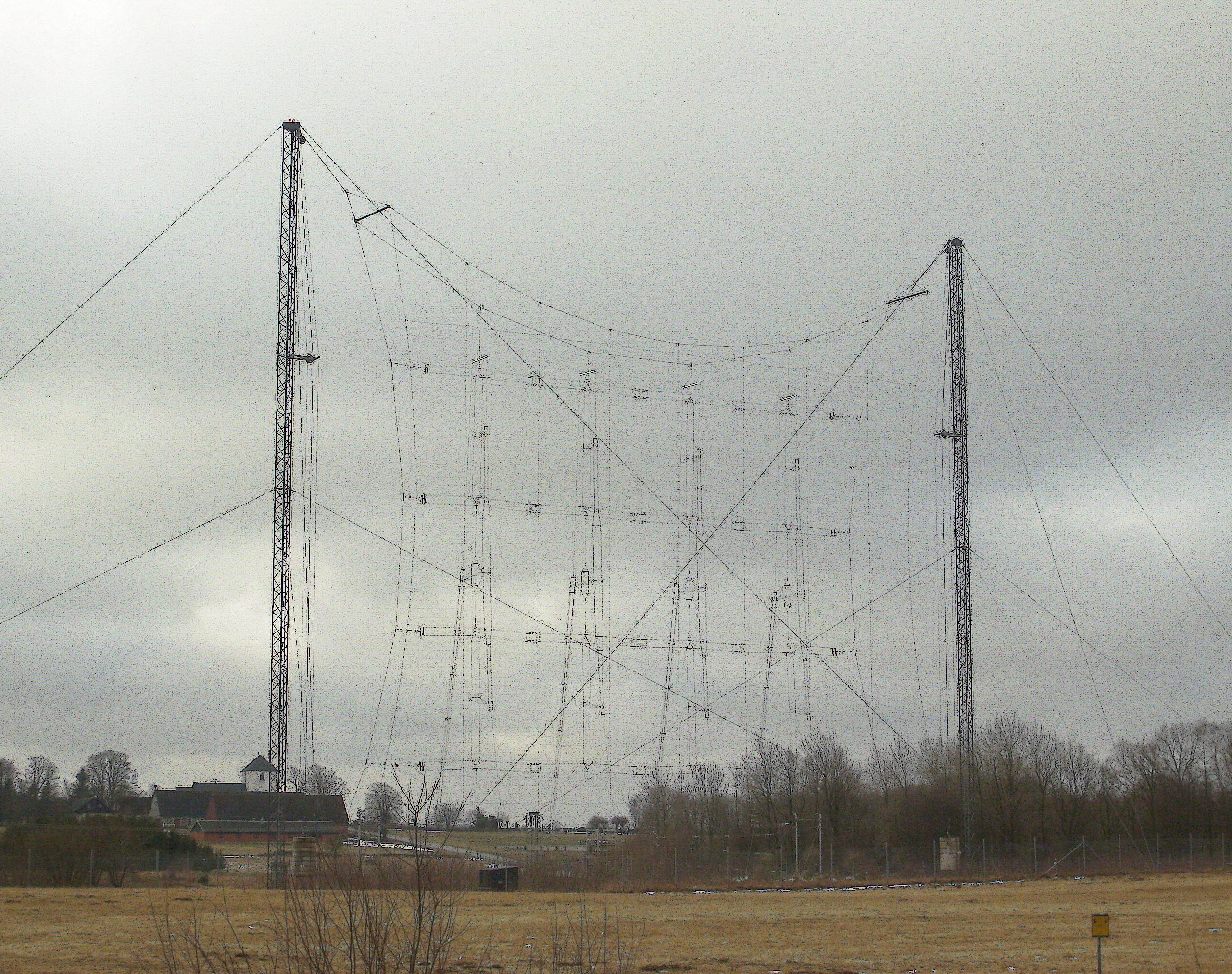 Antenna "G1" at Hörby Shortwave Station| near Hörby in the south of Sweden operated by the Swedish national broadcasting service Sveriges Radio. This is a curtain antenna, consisting of 16 horizontal wire half wave dipole antennas suspended in a 4x4 rectangular array, in front of a plane reflector consisting of a screen of many parallel horizontal wires. These are suspended from support wires stretching between the two steel masts. This antenna is used to broadcast to large areas thousands of miles away, around the curve of the Earth, by skywave ("skip") propagation. It radiates a powerful beam of radio waves at a shallow angle into the sky, where it is reflected back to Earth by the ionosphere beyond the horizon. Each of the vertical columns of 4 dipoles is fed by a separate transmission line, which can be seen exiting down at an angle at the center of each column. Hoerby shortwave station, operated by the national broadcasting organization Sveriges Radio (Radio Sweden) was shut down 30 October 2010 due to a decision to concentrate on internet broadcasting.